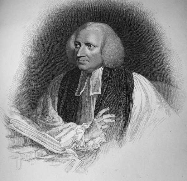 Robert Lowth, D.D. Lord Bishop of London A 10" x 14" engraving from the original painting by L.E. Pine in possession of Rev. Robert Lowth, M.A. dated 1809 as published in a special edition of "Dr. Johnson: His Friends and His Critics" by George Birkbeck Hill